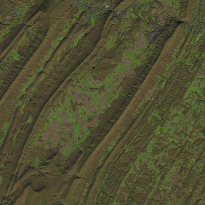 Landsat image of Friends Cove, a valley in Bedford County, Pennsylvania. The ridge right of center is Tussey Mountain, and the ridge left of center is Evitts Mountain. The town of Everett is in the upper right corner.